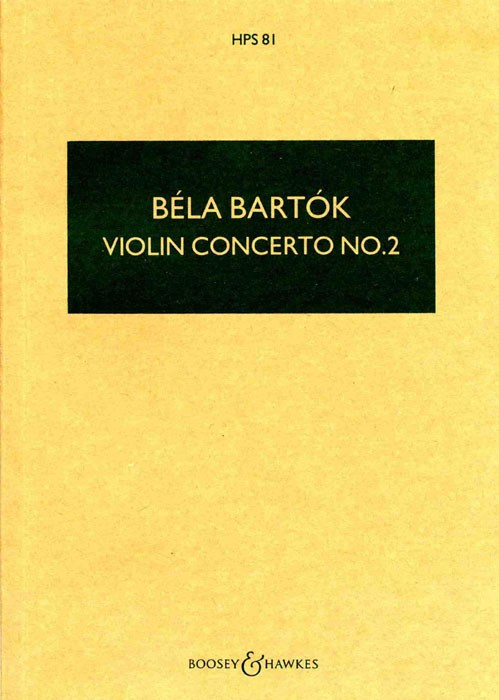 Cover of score of Béla Bartók's Violin Concerto No. 2 by Boosey & Hawkes